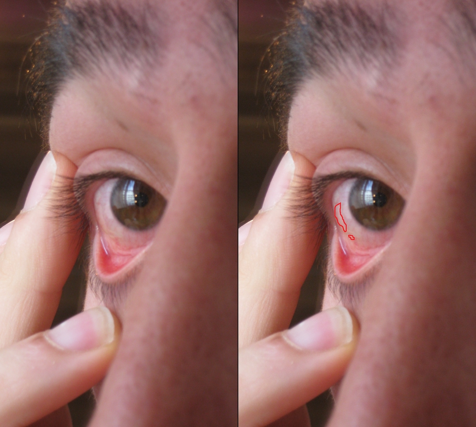 An eye showing a swollen region on the conjunctiva due to chemosis.